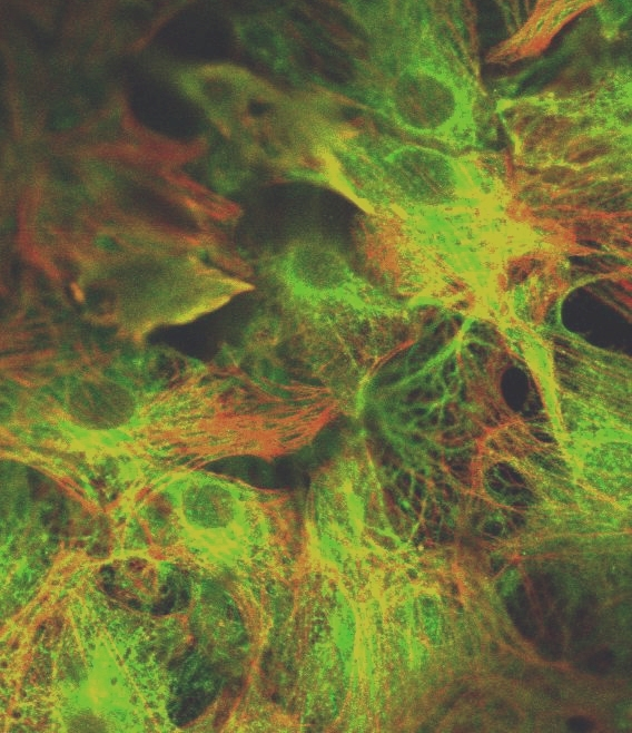 Vasyl Nagibin, Veronika Gurianova, Lesya Tumanovska, Kiril Agashkov. Immunofluorescent image of vimentin (green) and alpha-actin (red) distribution in cultured rat cardiac (myo-) fibroblasts. The image is obtained using confocal microscope after staining of vimentin (green) and alpha-actin (red) in primary culture of rat neonatal fibroblasts with fluorescence-labeled antibodies in the Bogomoletz Institute of Physiology, NAS of Ukraine. Fibroblasts are the main cells of connective tissue which produce proteins of intercellular matrix, for example collagen. One of their molecular markers is vimentin that forms intracellular intermediate filaments. Under certain conditions (tissue damage or hypoxia) these cells can be transformed to myofibroblasts, that additionally produce smooth muscle protein alpha-actin allowing them to become contractile. Myofibroblasts are necessary for regeneration of tissue (wound healing, scar formation, etc).